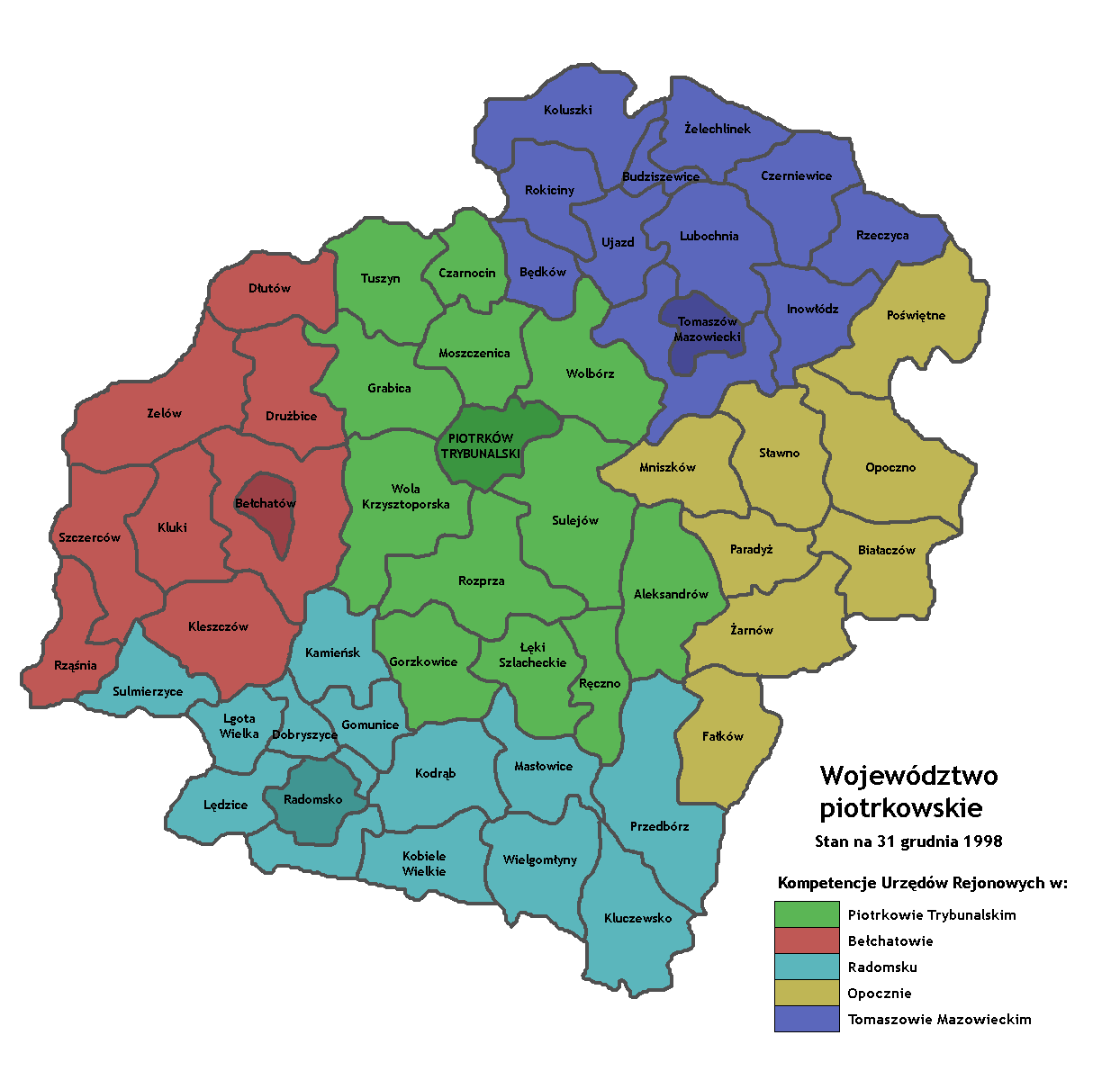 Map of Piotrków voivodeship in the last day of its existence (31 december 1998).